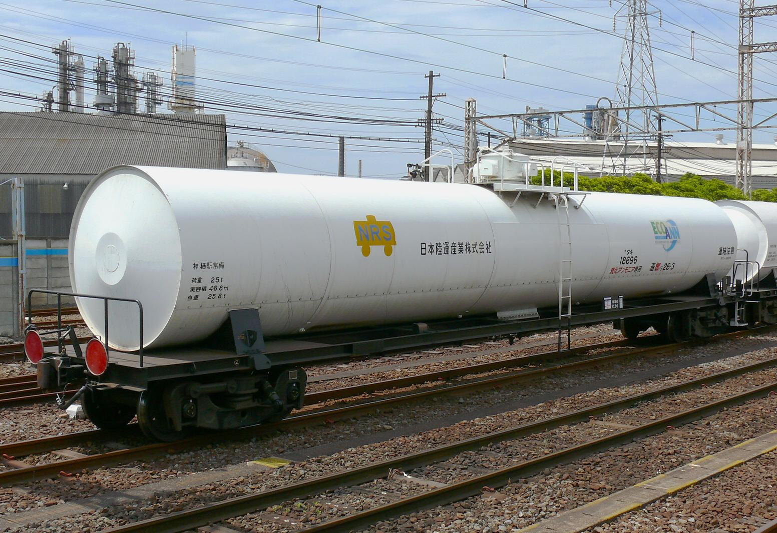 Nippon Riku-un sangyo Type Hoki 18600 Tank car only for liquefaction ammonia(Japan). Taking a picture from Ougimati-Station platform in JR-Turumi-line. 日本陸運産業が所有するタンク車のタキ18600形液化アンモニア専用タンク車（18696）。 JR鶴見線の扇町駅にて、ホームより撮影。